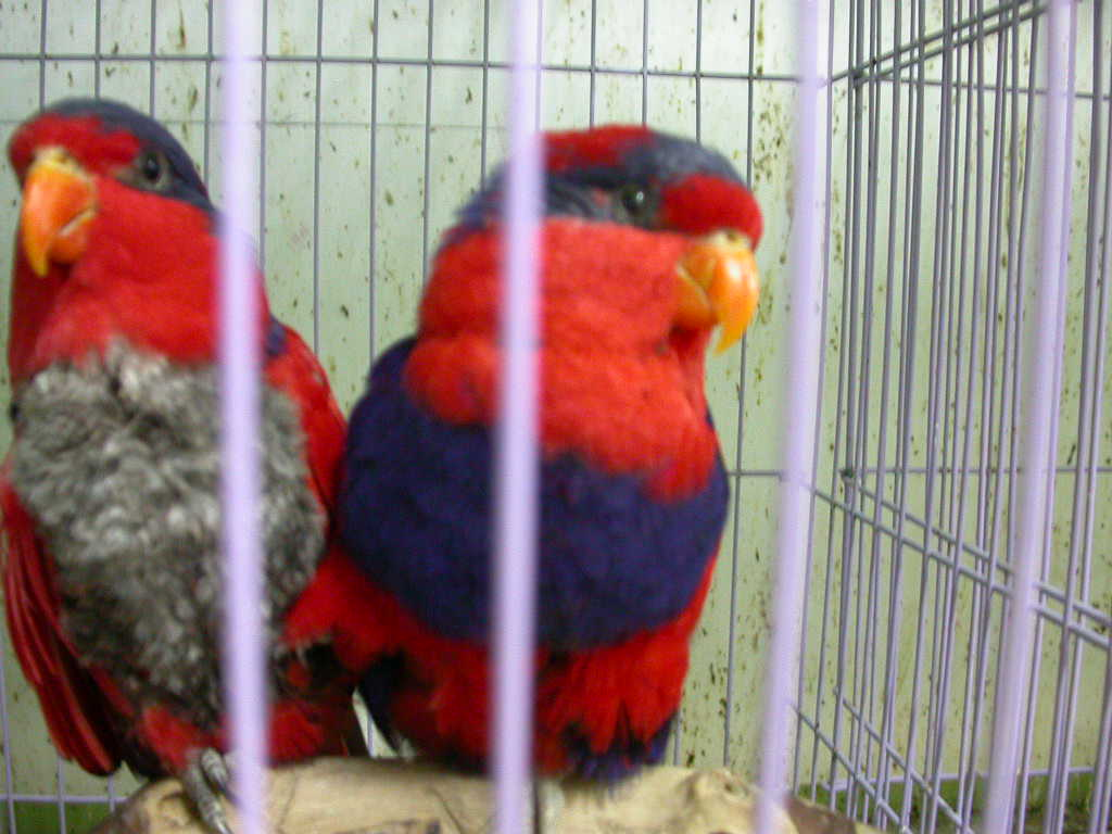 Red-and-blue lory. two in a cage.